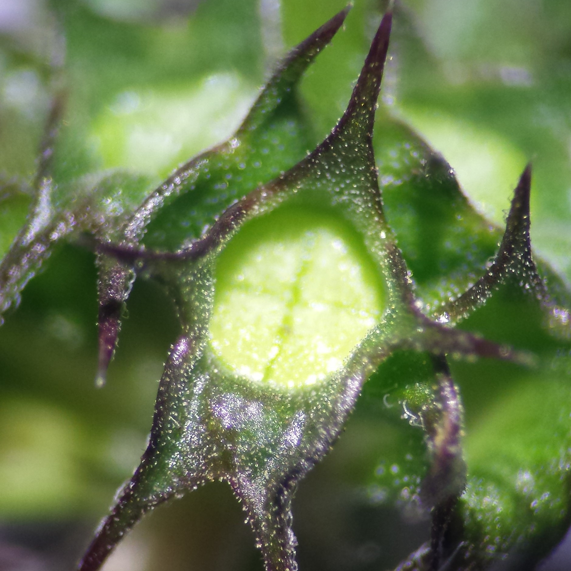 Fruit Taxonym: Leonurus cardiaca subsp. cardiaca ss Fischer et al. EfÖLS 2008 ISBN 978-3-85474-187-9 Location: Stammersdorf, Vienna-Floridsdorf - ca. 160 m a.s.l. Habitat: wayside